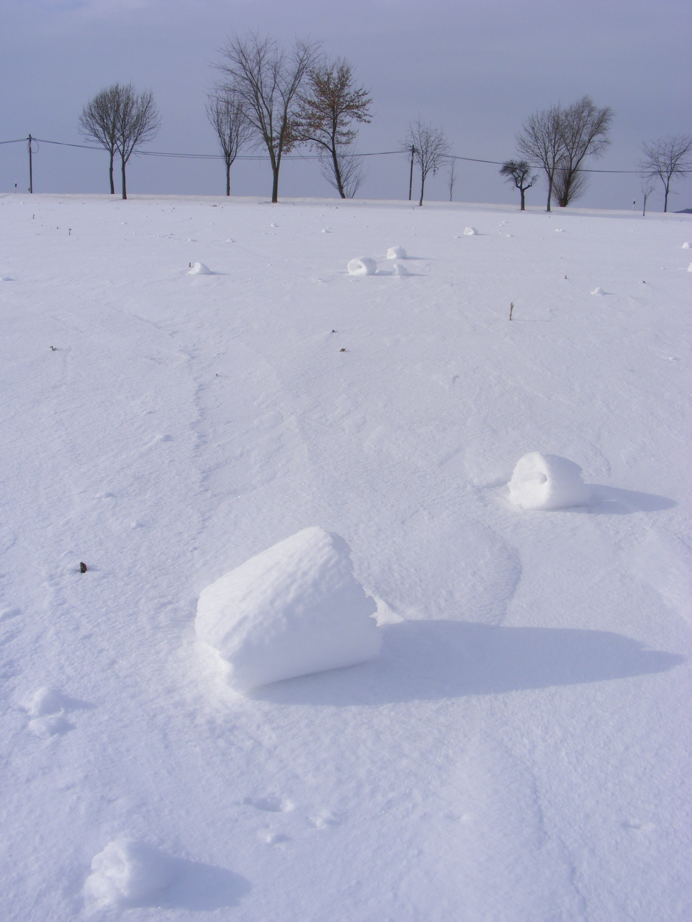 Schneeringe in Zäckwar